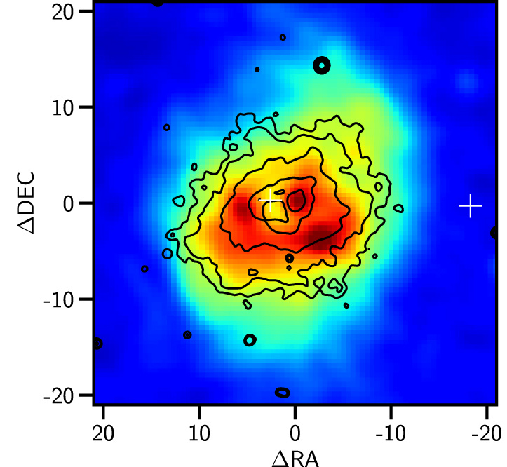 Chandra image of NGC 4636 with superimposed contours of Hα+[N ii] emission. White crosses mark the detected CO cloud positions. Part of a collage that includes similar images of NGC 5846 and NGC 5044.